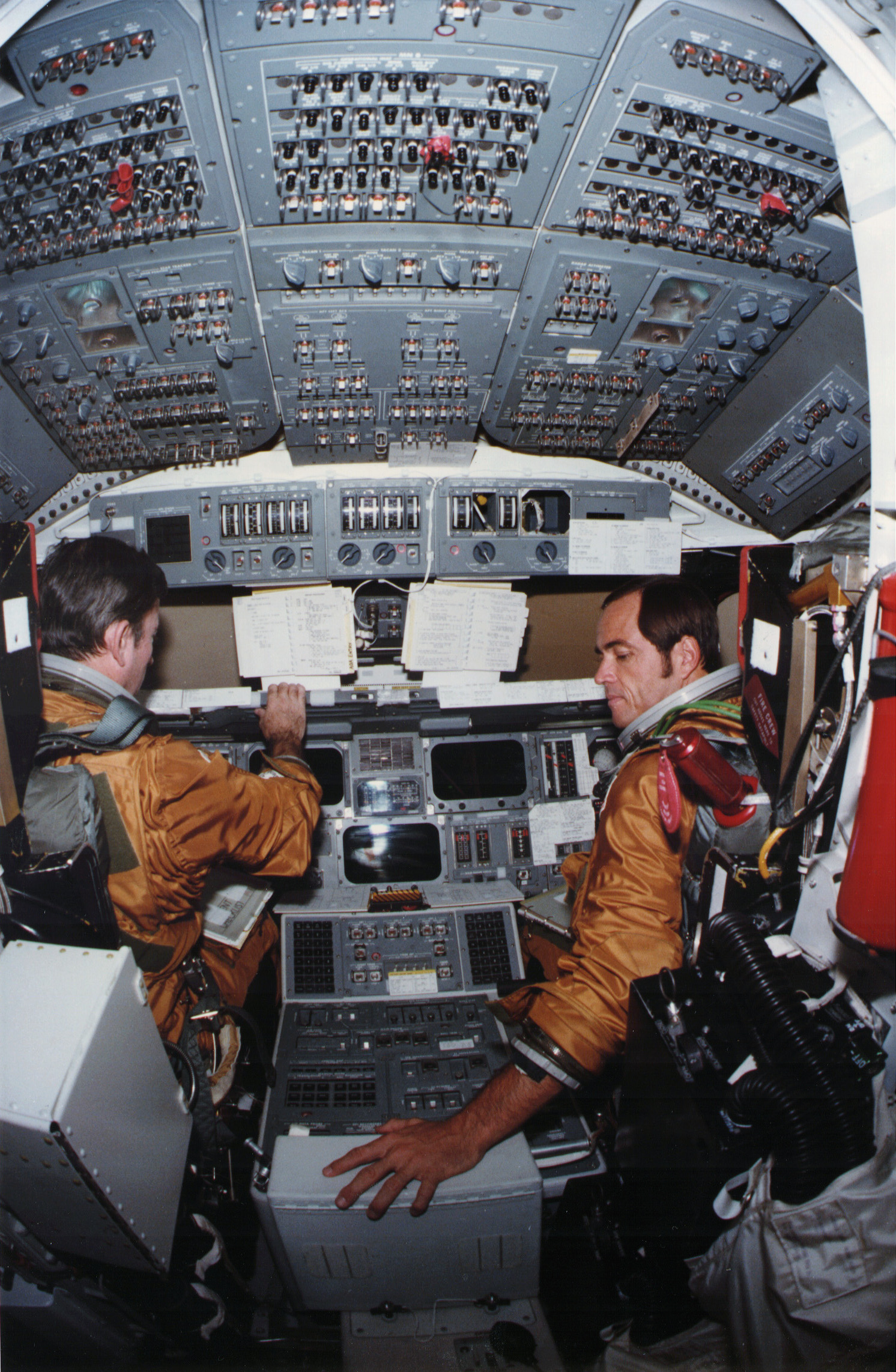 STS-1 crew in Space Shuttle Columbia's cabin. Astronauts John W. Young (left) commander and Robert L. Crippen, pilot, are the prime crew members for NASA's first Space Shuttle flight, STS-1. Here, they are logging time in the Shuttle orbiter Columbia in the Orbiter Processing Facility (OPF) at the Kennedy Space Center (KSC).